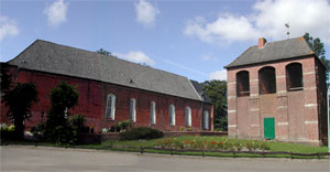 Church of Victorbur